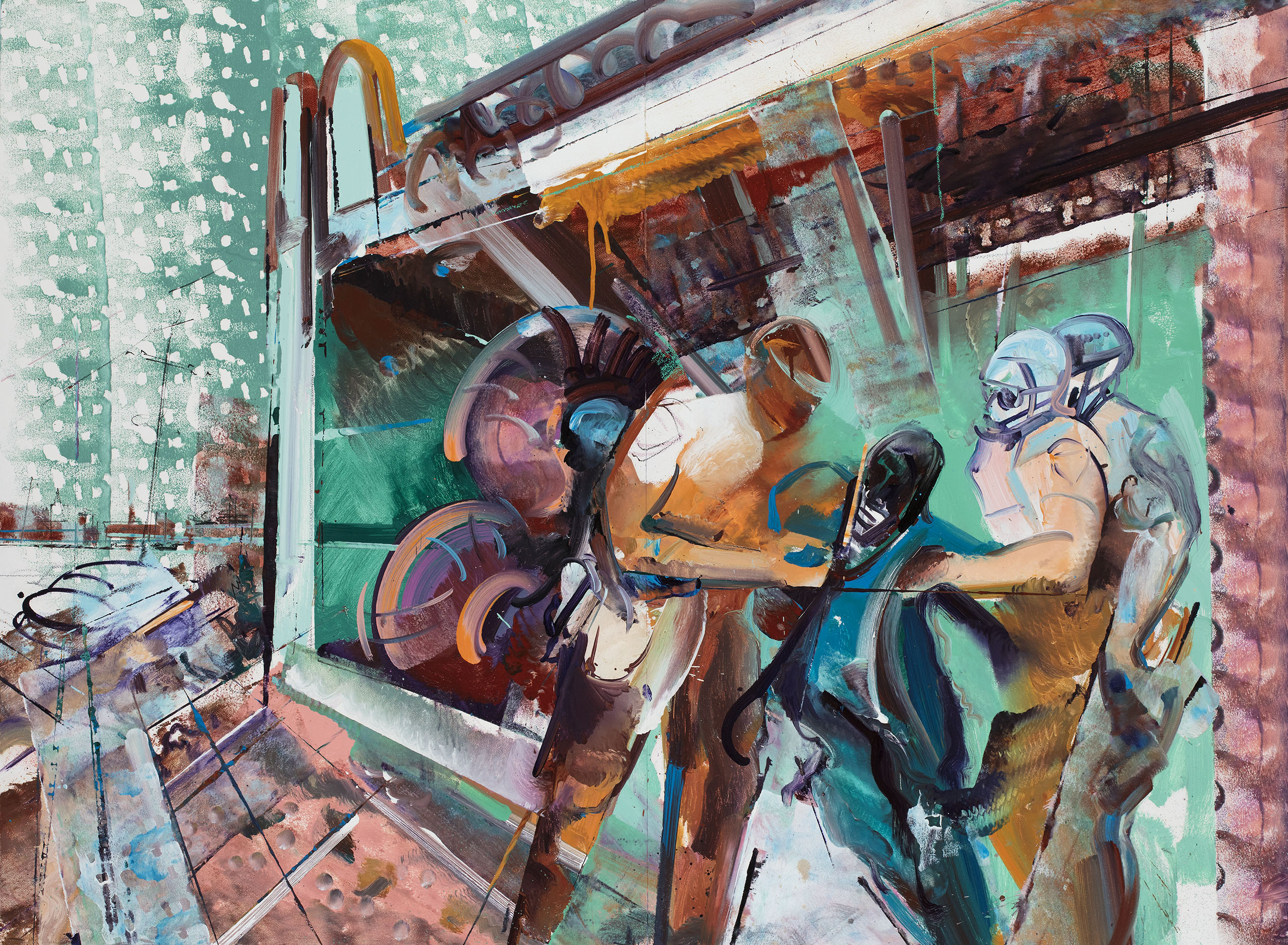 Painted in response to 2015 Baltimore protests. Foam paint rollers create perforated patterns that look like bullet holes in the sky.